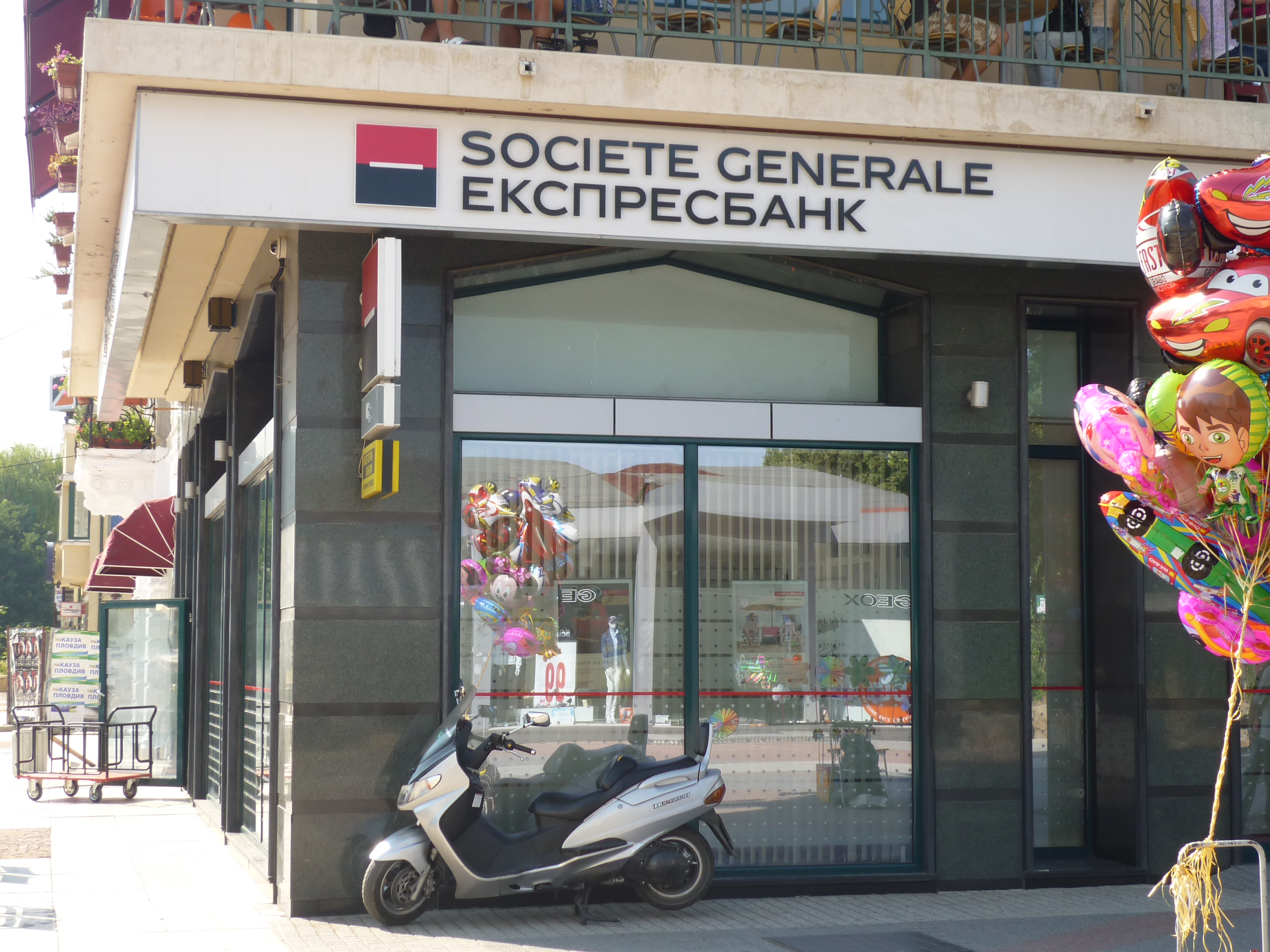 Expres Bank - Société générale retail agency - Kpuaz Aleksandar street, Plovdiv, Bulgaria